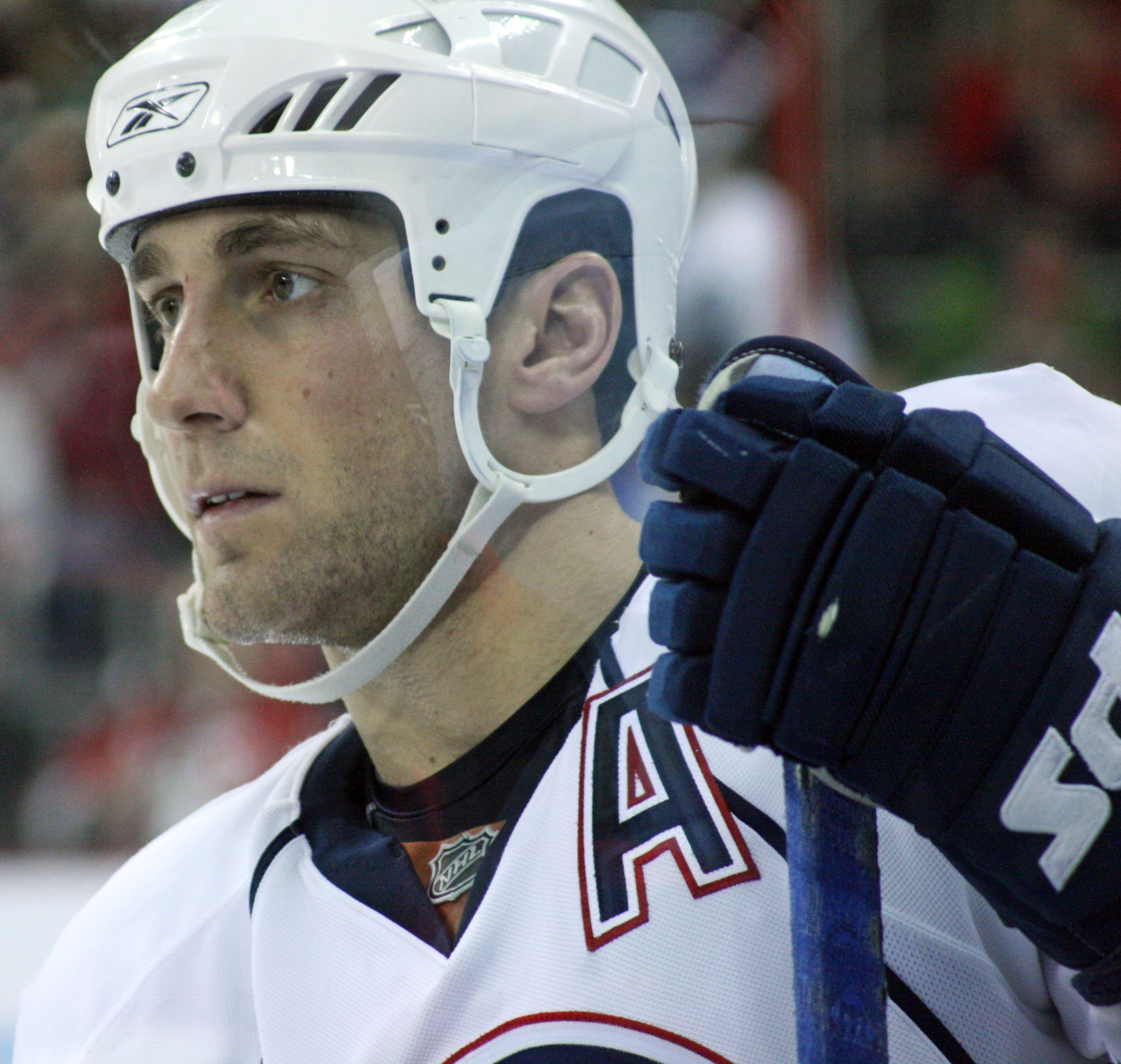 Edmonton Oilers forward Jarret Stoll